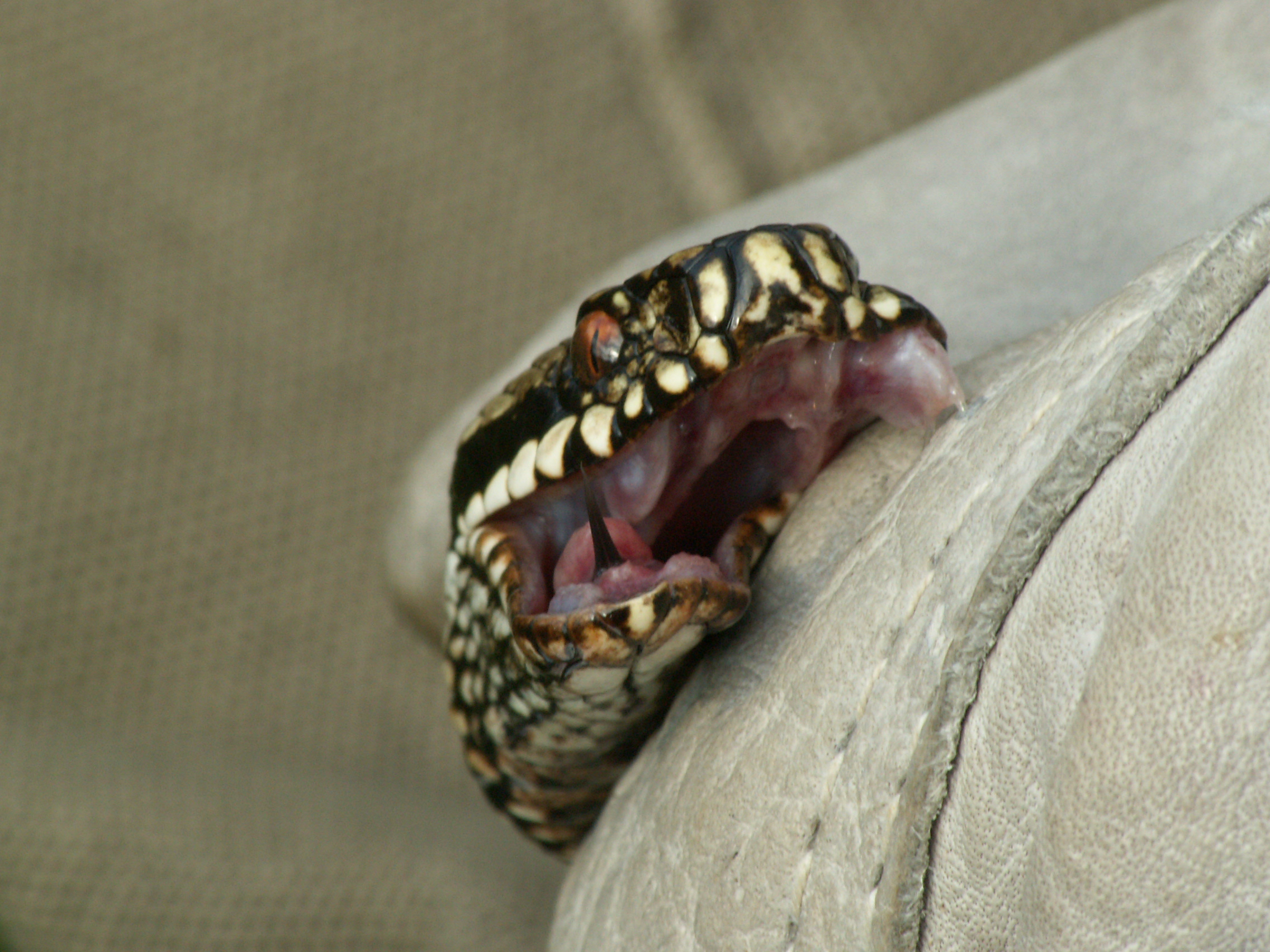 Vipera berus male, one fang with a small venom stain in leather glove, Veluwe, the Netherlands